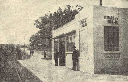 Santiago de Riba-Ul Halt, on the Vouga Railway, in Portugal. This image was published on the Gazeta dos Caminhos de Ferro magazine no. 1363, of the 1st October 1944, and scanned by the Hemeroteca Municipal de Lisboa.